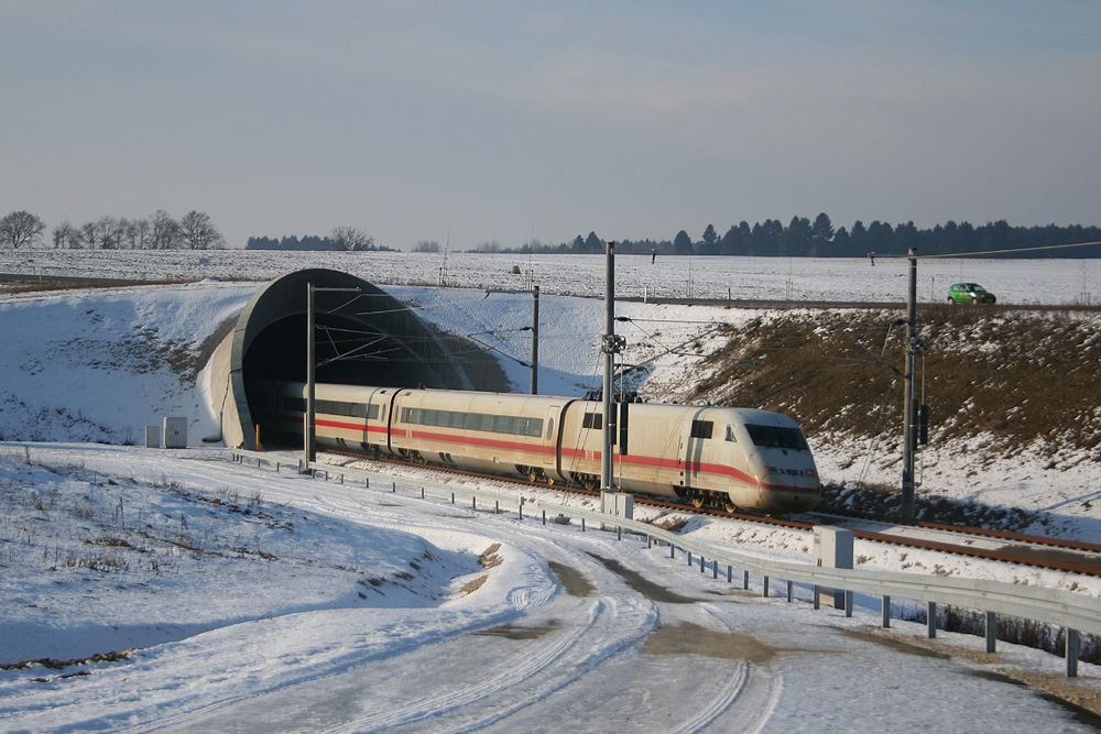 An ICE S test train leaves the north entrance to the Geisberg-Tunnel, Nuremberg-Munich high-speed railway line